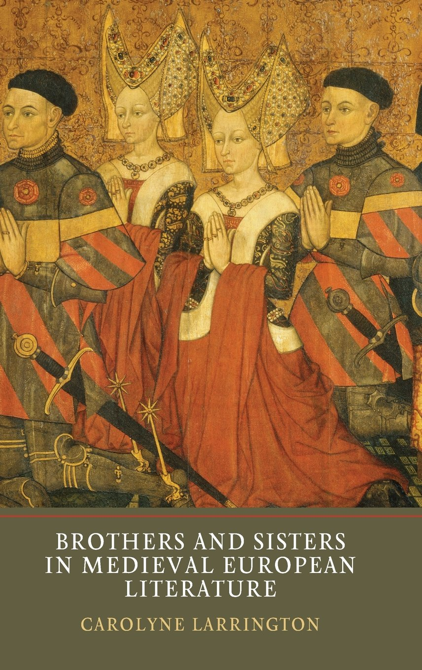 Brothers and Sisters in Medieval European Literature book cover.